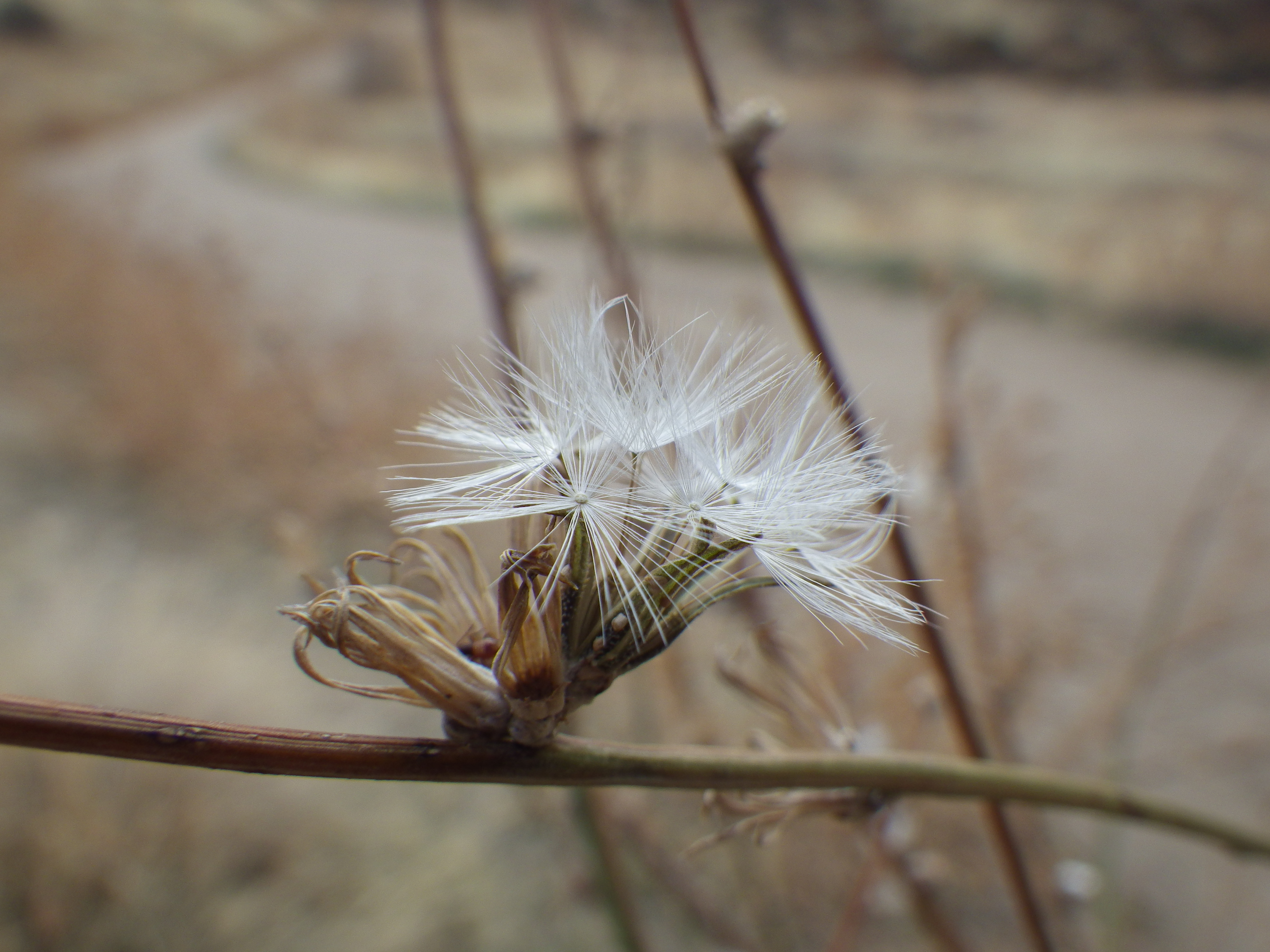 The achenes are beaked and bear distal tubercles some of which supperficially resemble pappus scales.